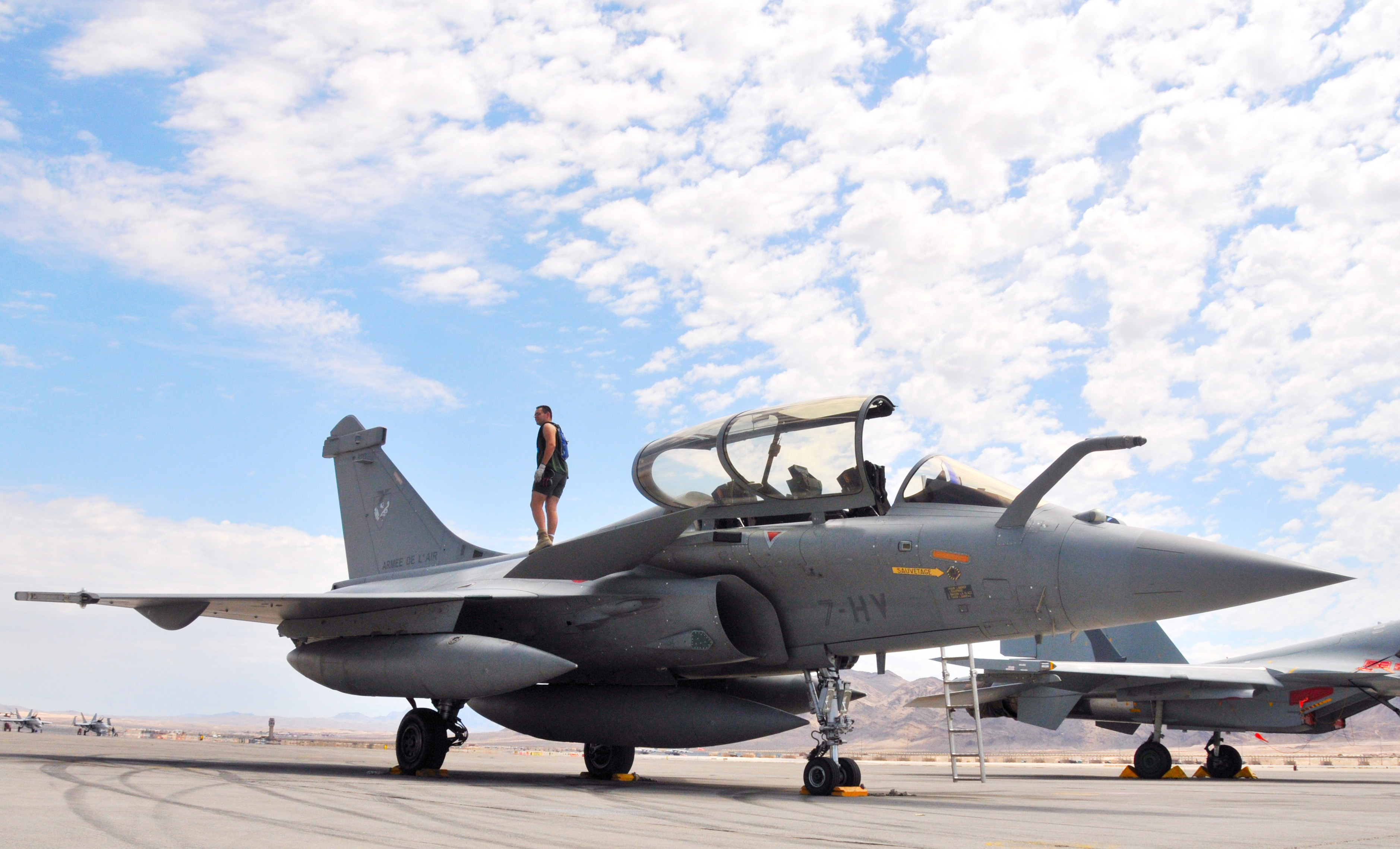 A crewman performs a post-flight check on a Armee de l'Air (French Air Force) Rafale B fighter at Nellis Air Force Base, Nevada (USA), on 7 August 2008. The French Rafale was from Escadre de Chasse 2/7 "Provence" (Fighter Squadron 2/7) from St. Dizier air base, Champagne-Ardennes region, France. The "Red Flag 08-4" exercise was an two-week exercise that pits forces in a realistic aerial "battlefield" to hone the fighting skills of American and allied airmen. Republic of Korea, Indian, Navy and Air Force teams were joining the French Air Force in "Red Flag 08-4".